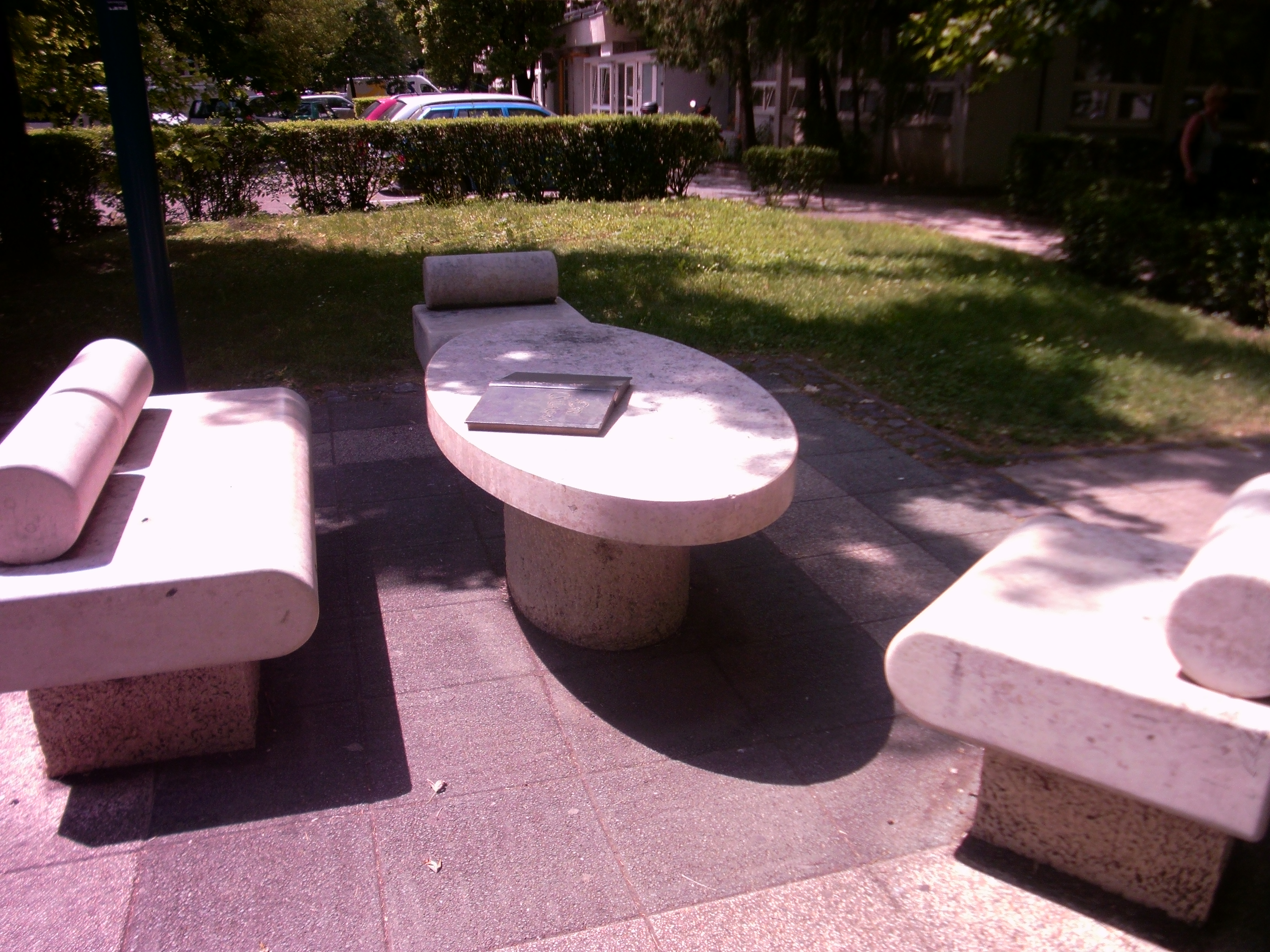 The Big Read (Géza Gárdonyi:Eclipse of the Crescent Moon). Sculpture by Zoltán Popovits in Eger)